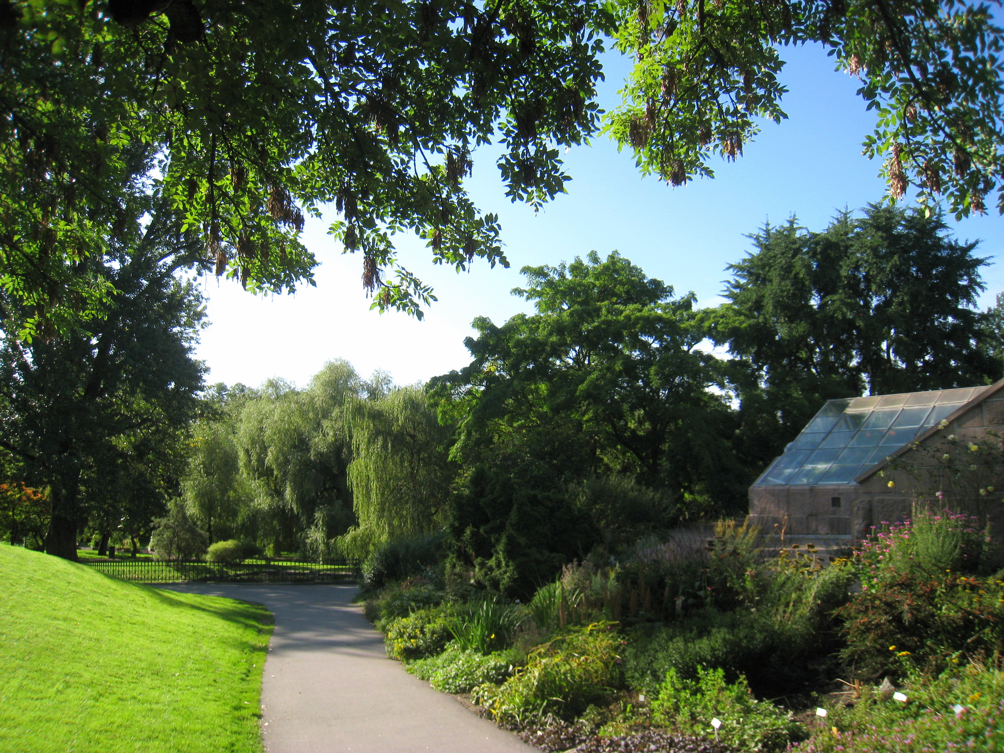 Oslo Botanical Garden, Oslo, Norway.